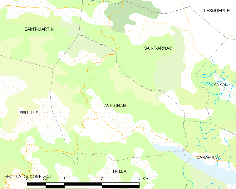 Map of French municipality